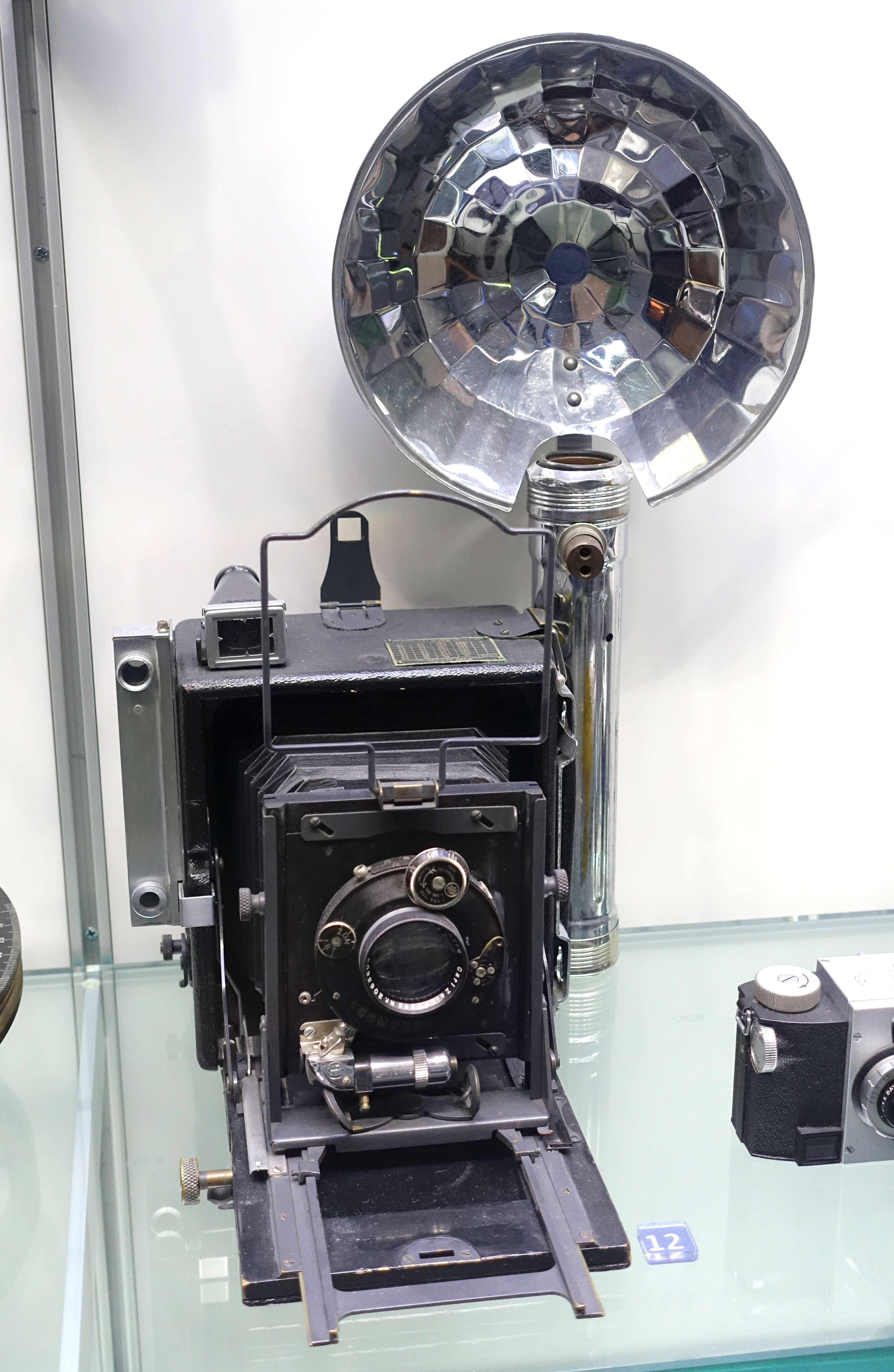 Exhibit in the Museum of Science and Industry, Chicago, Illinois, USA.